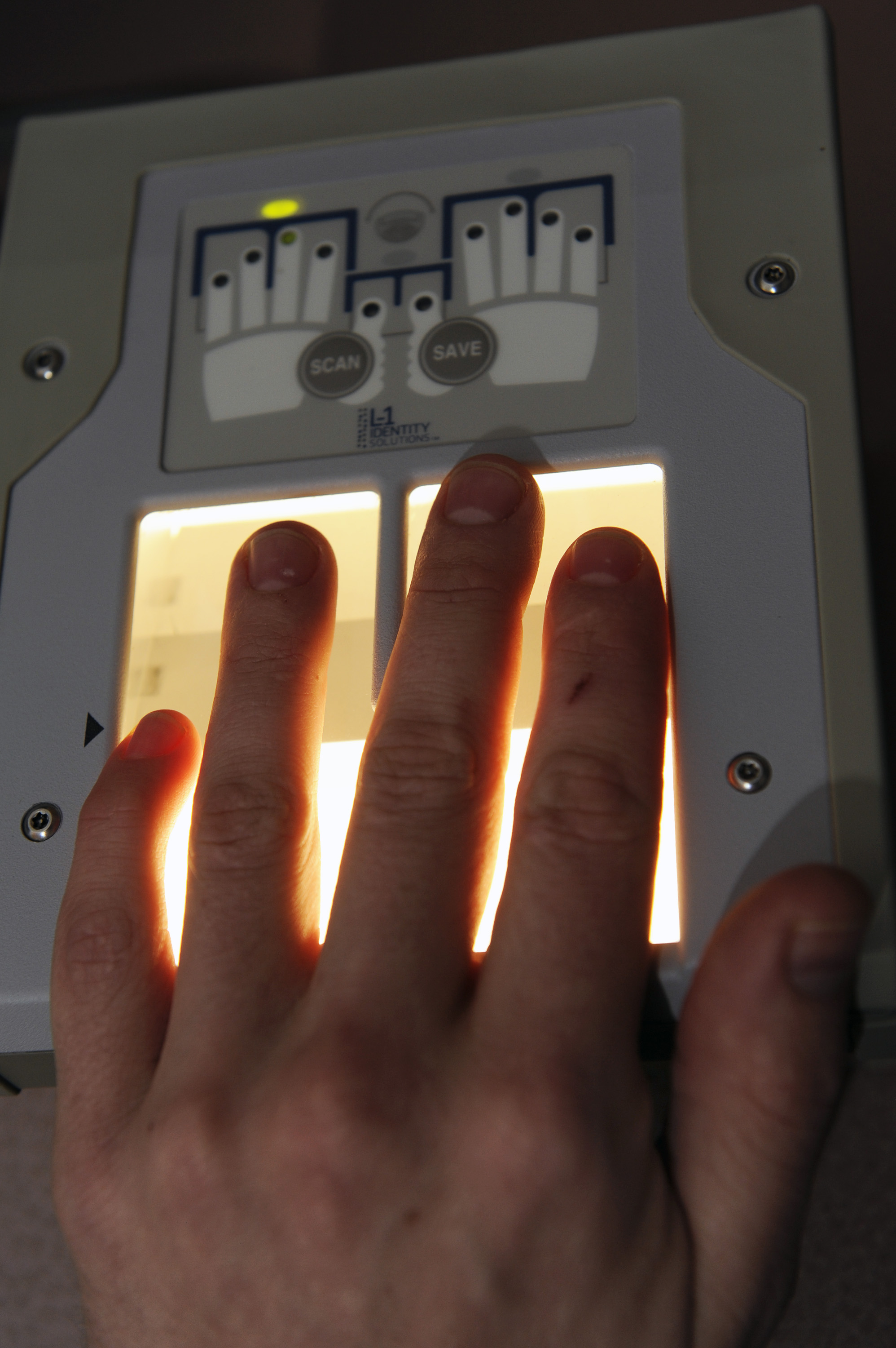 ELLSWORTH AIR FORCE BASE, S.D. -- The new digital fingerprinting system used by the 28th Bomb Wing Information Protection Office electronically captures fingerprints, Dec. 10. The system allows security professionals to send prints to the Office of Personnel Management in real time.